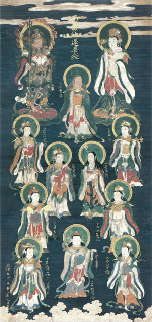 Kishimojin and the Ten Rasetsunyo, by Hasegawa Tohaku, Daihoji, Takaoka, Toyama, Japan